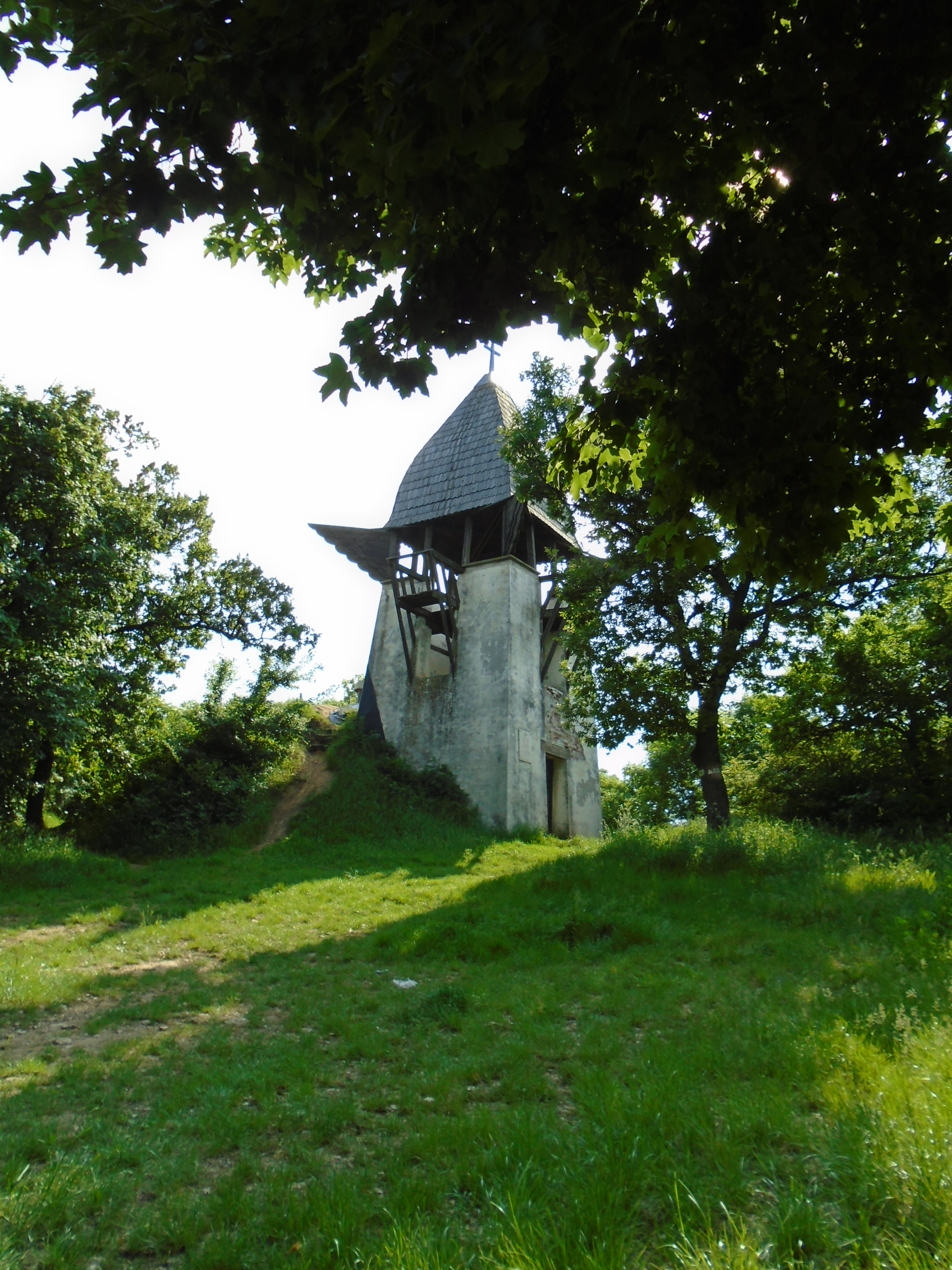 Szent László observation tower in Mogyoród.